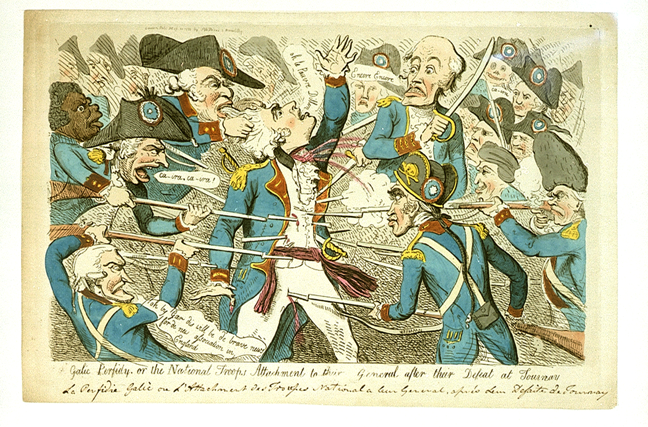 Galic Perfidy, or the National Troops Attachment to their General after their Defeat at Tournay (caricature) Hand-coloured.